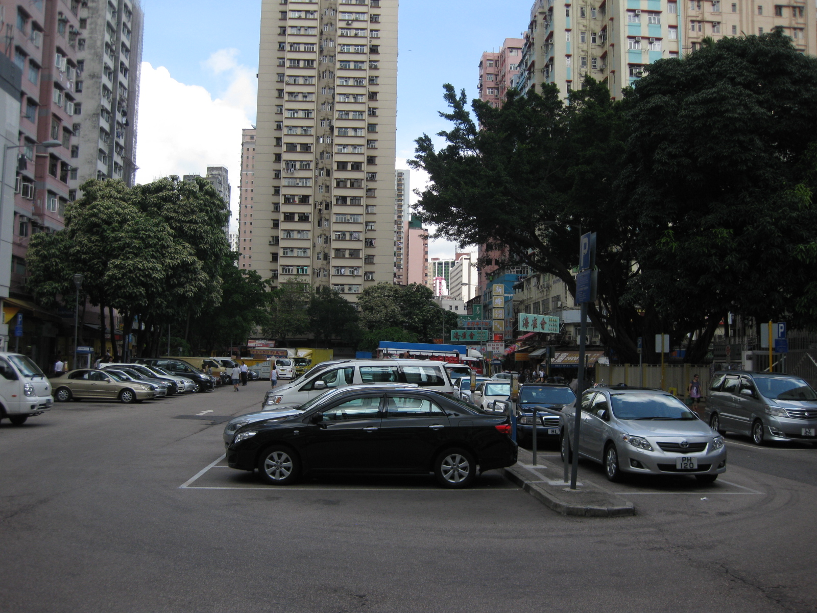 Lo Tak Court carpark